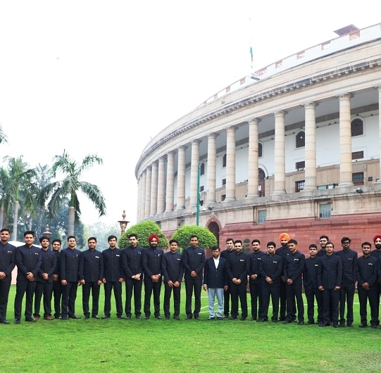 IOFS probationers at parliament of india